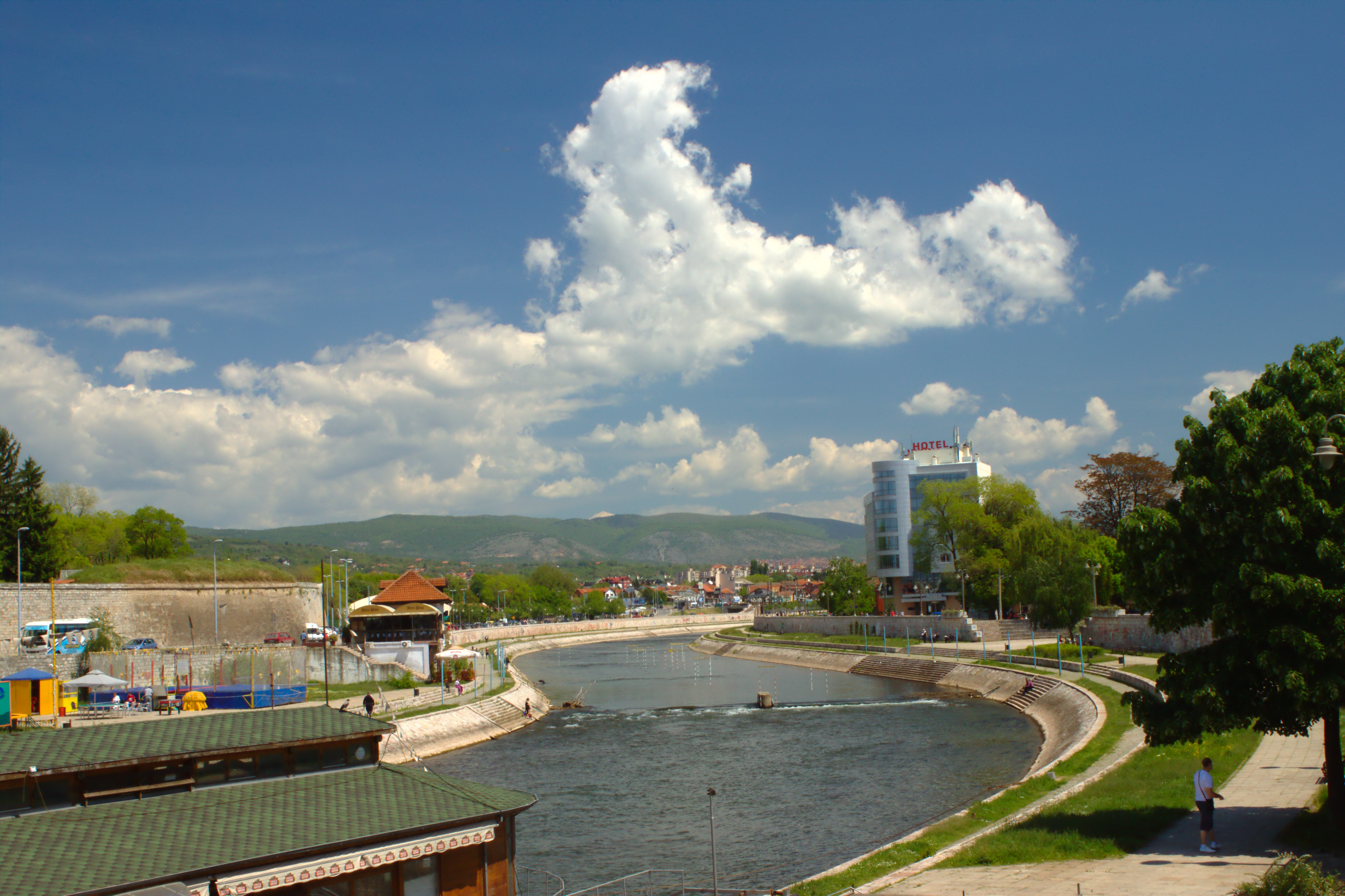 Nišava River valley in the town of Niš, Serbia